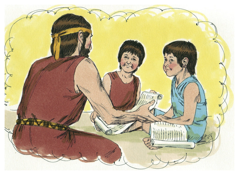 Biblical illustration of Book of Deuteronomy Chapter 12